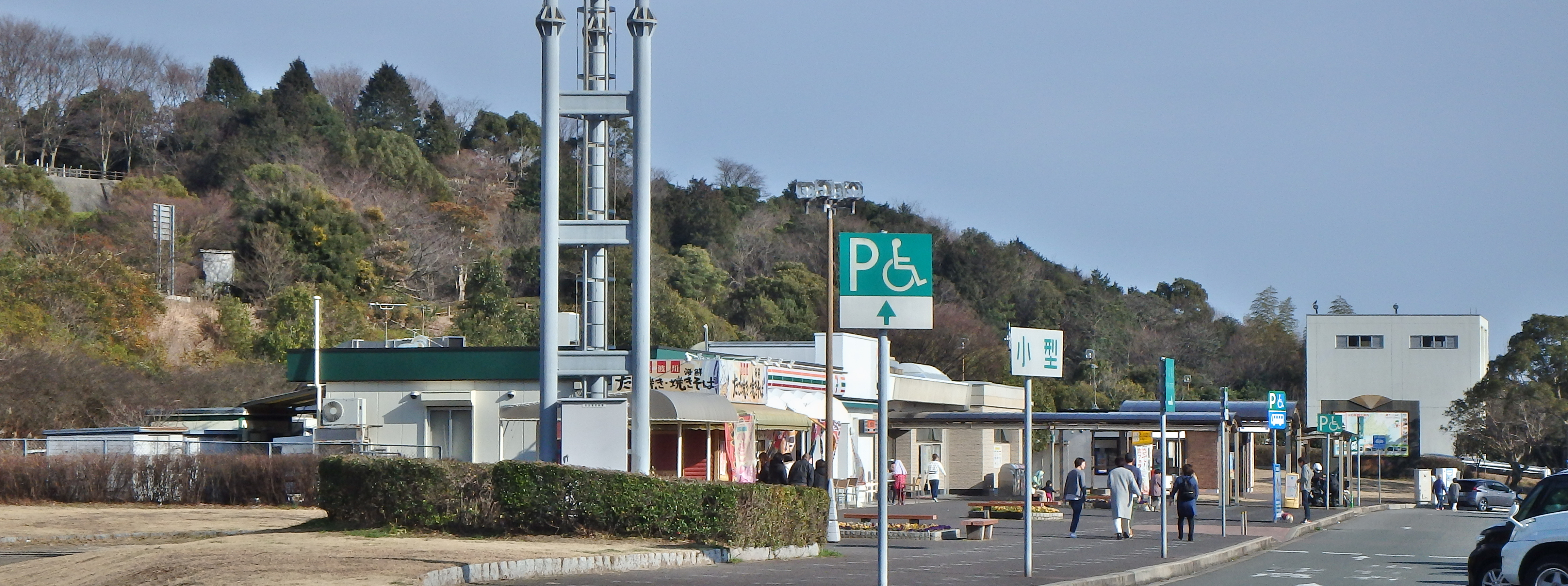 Sabagawa Servive Area for Hoiroshima, Yamaguchi prefecture,Japan